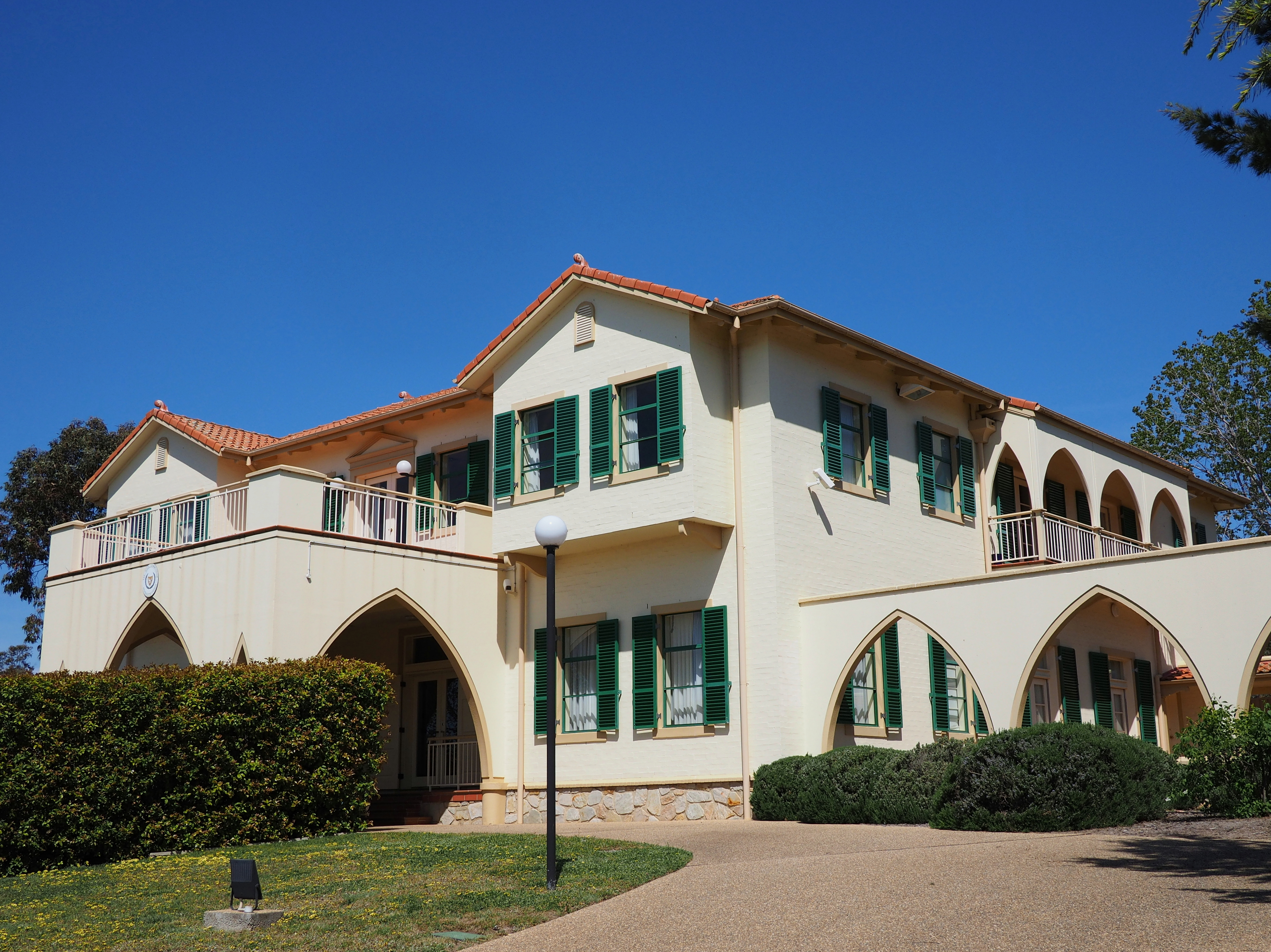 The building housing the High Commission of the Republic of Cyprus to Australia